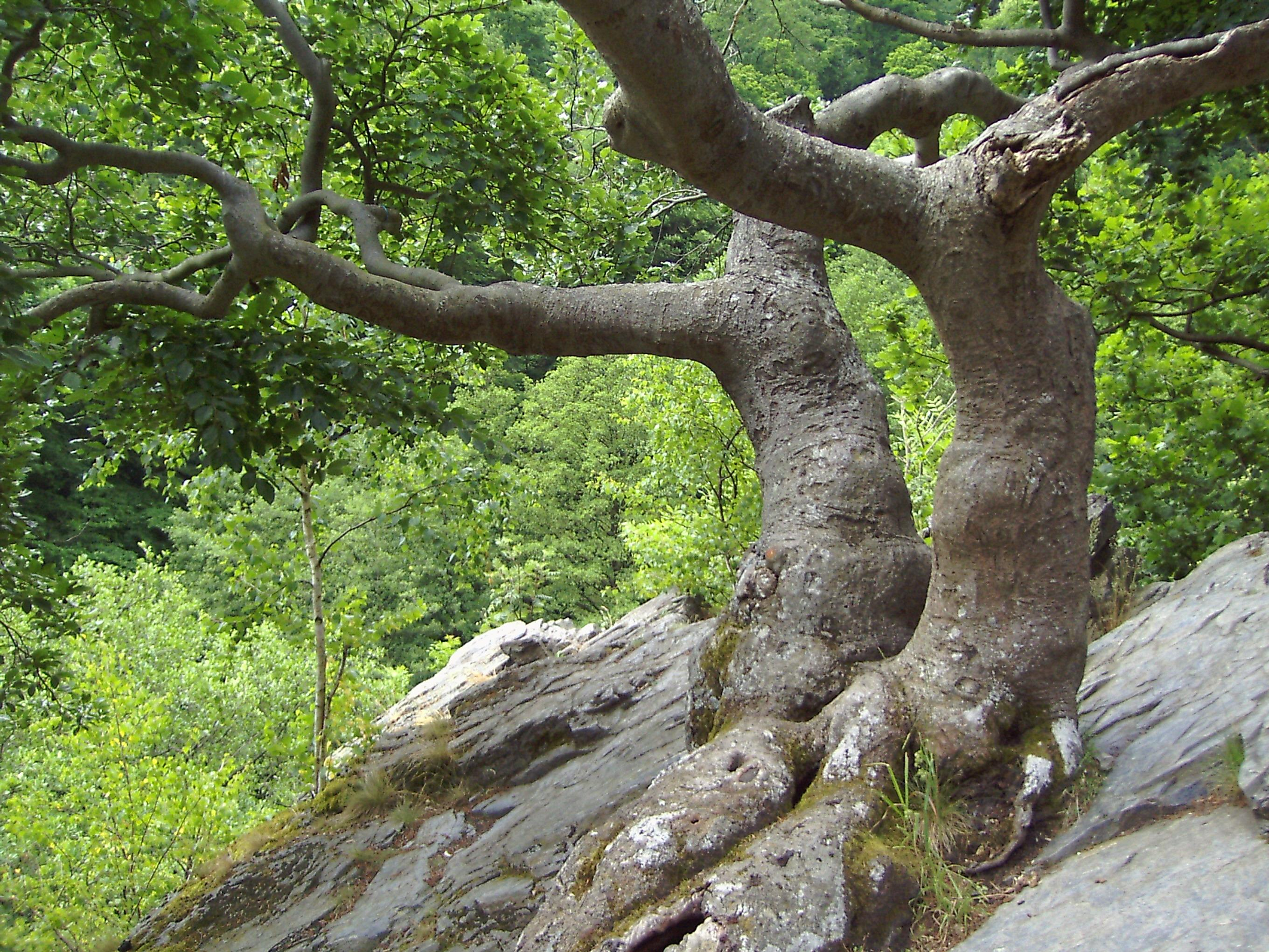 Crooked beeches growning on a rock outcrop in the Bode Gorge near Treseburg. Harz mountains, Germany